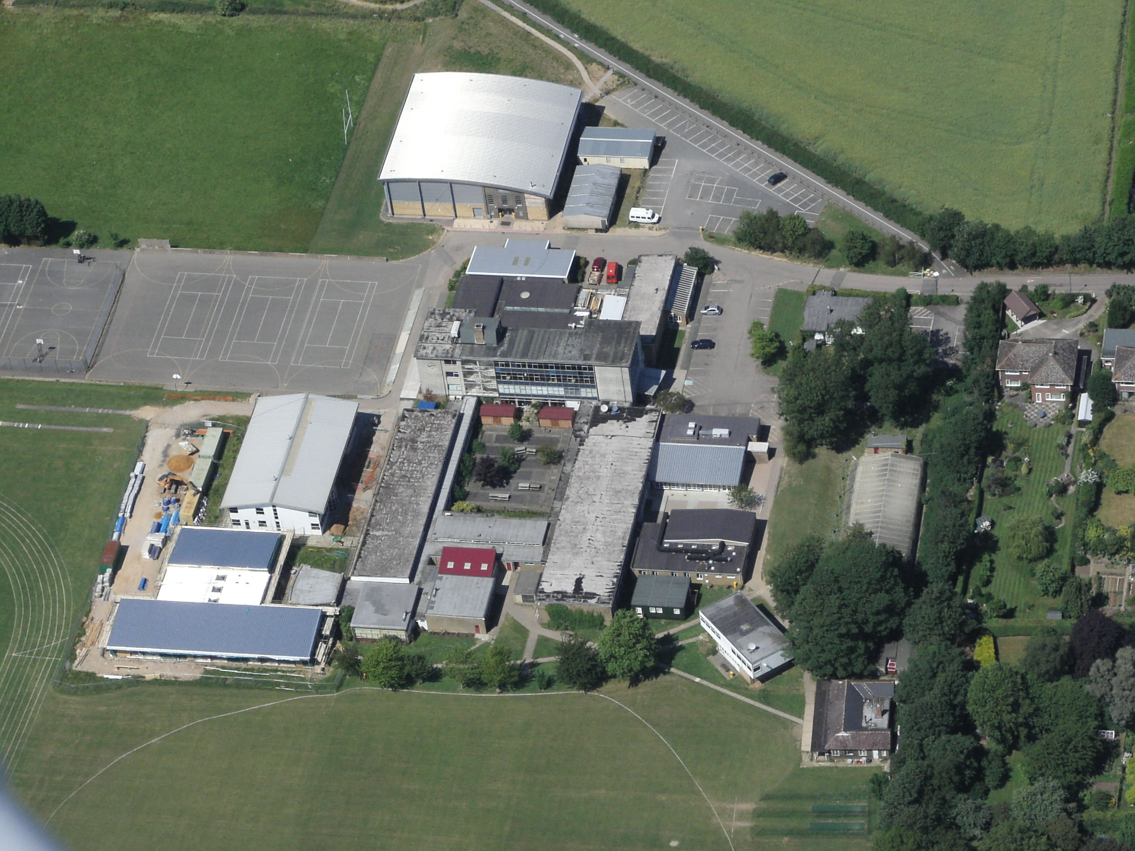 An aerial photograph of The Langton, taken from aircraft piloted by Old Langtonian Ed Ludlow.